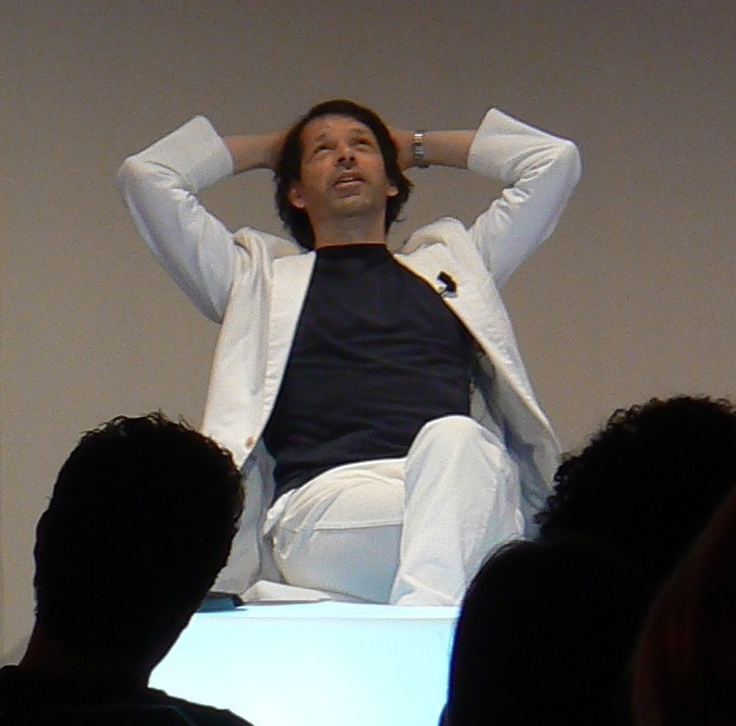 Graphic designer Peter Saville at i realize 2009, Turin.